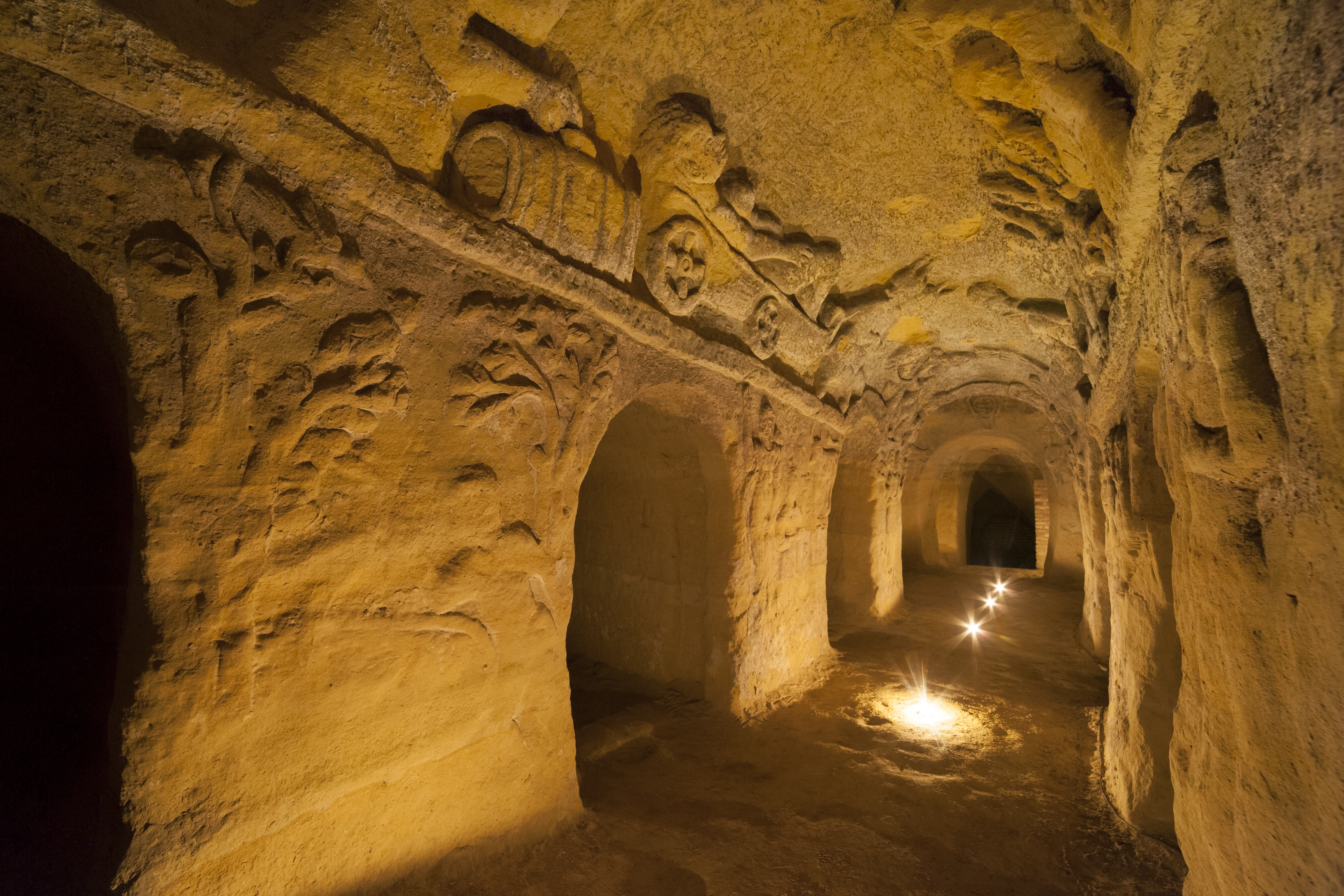 Caves Palazzo Campana 1